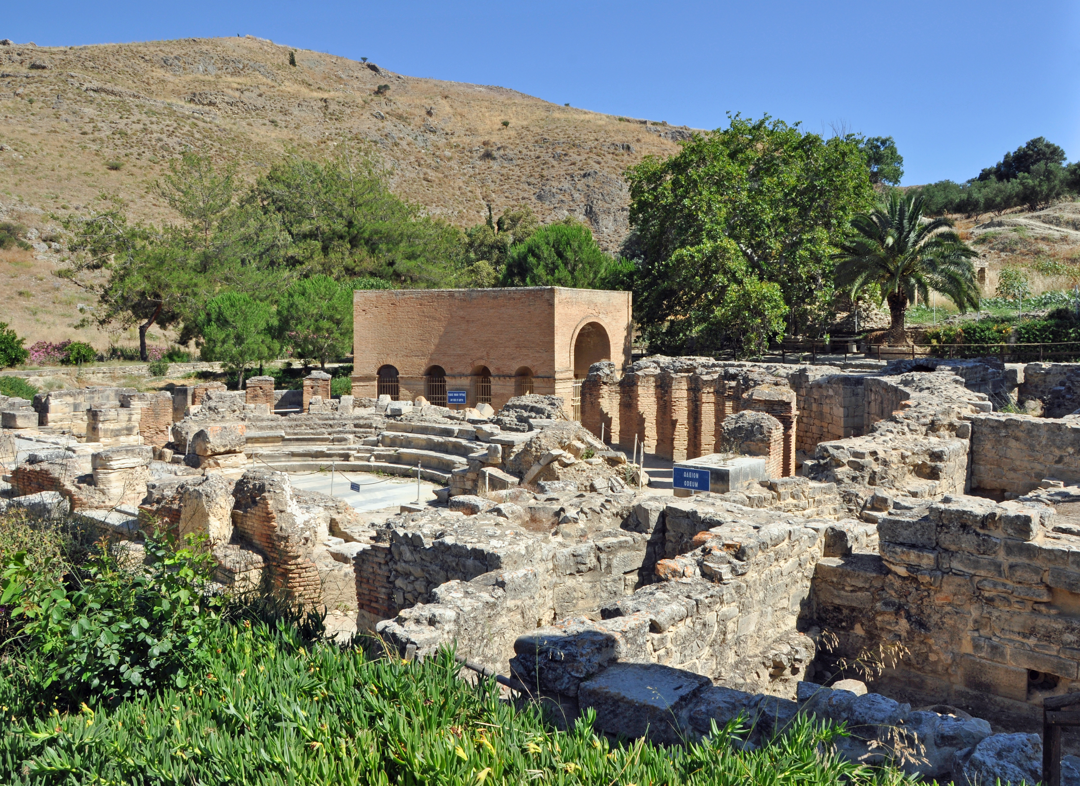 Gortys or Gortyn (Crete, Greece): archaeological site with Roman Odeon